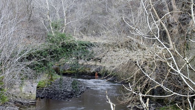 Roman Bridge at Mousemill Kirkfieldbank